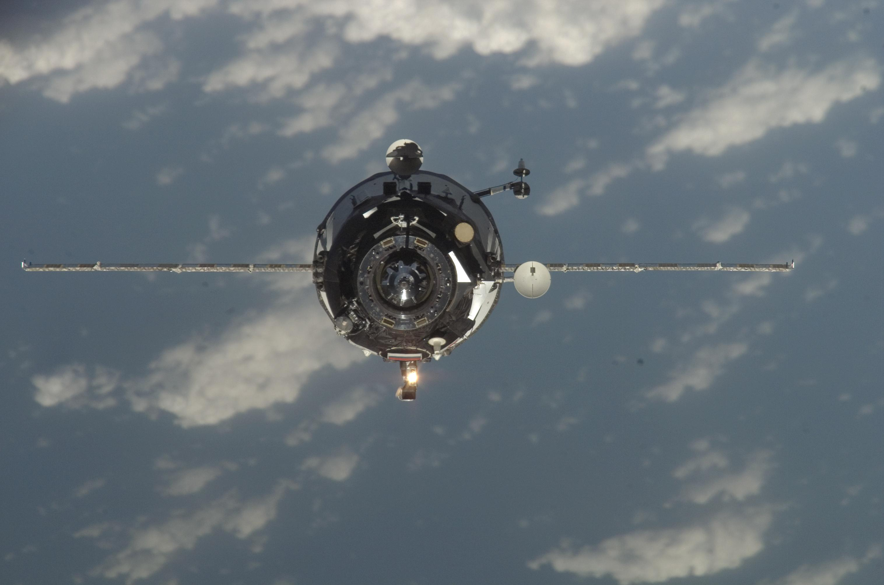 Progress M-63 seen from the International Space Station during docking.